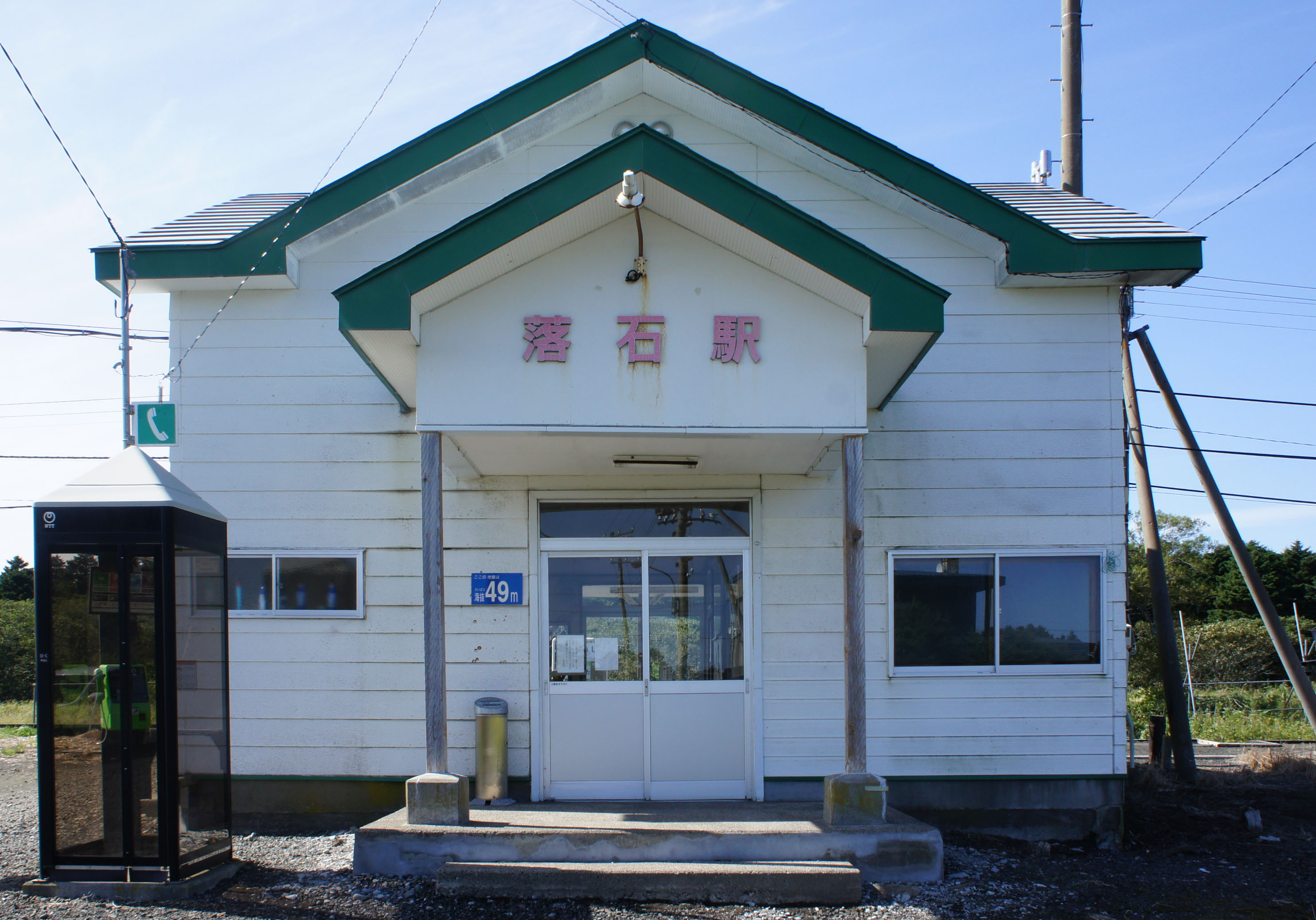 Station building of JR Nemuro-Main-Line Ochiishi Station